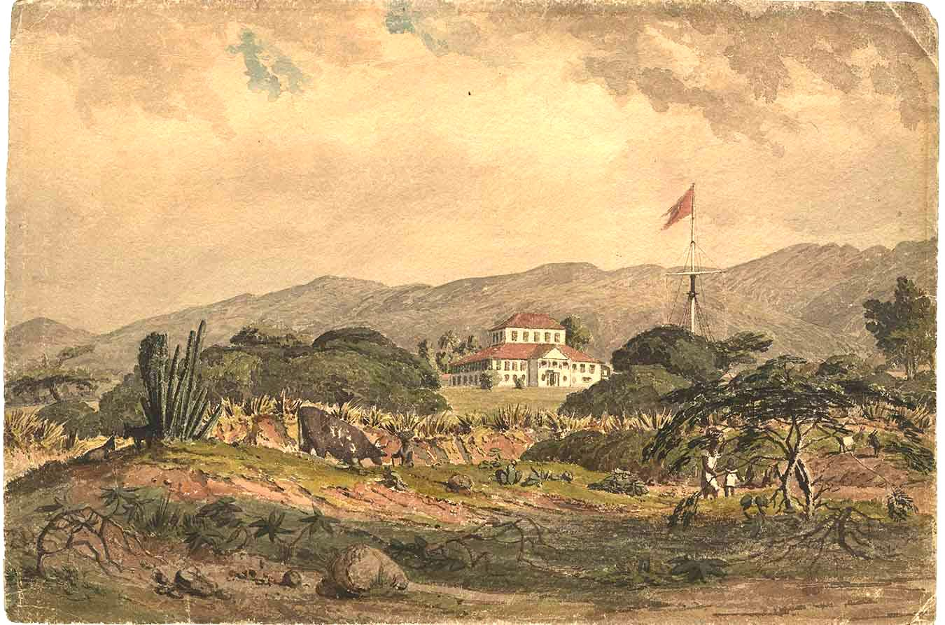 Admiral's Pen, near Kingston, Jamaica the house of the admiral commanding the West India Station. Print of a watercolour by E.E. Vidal